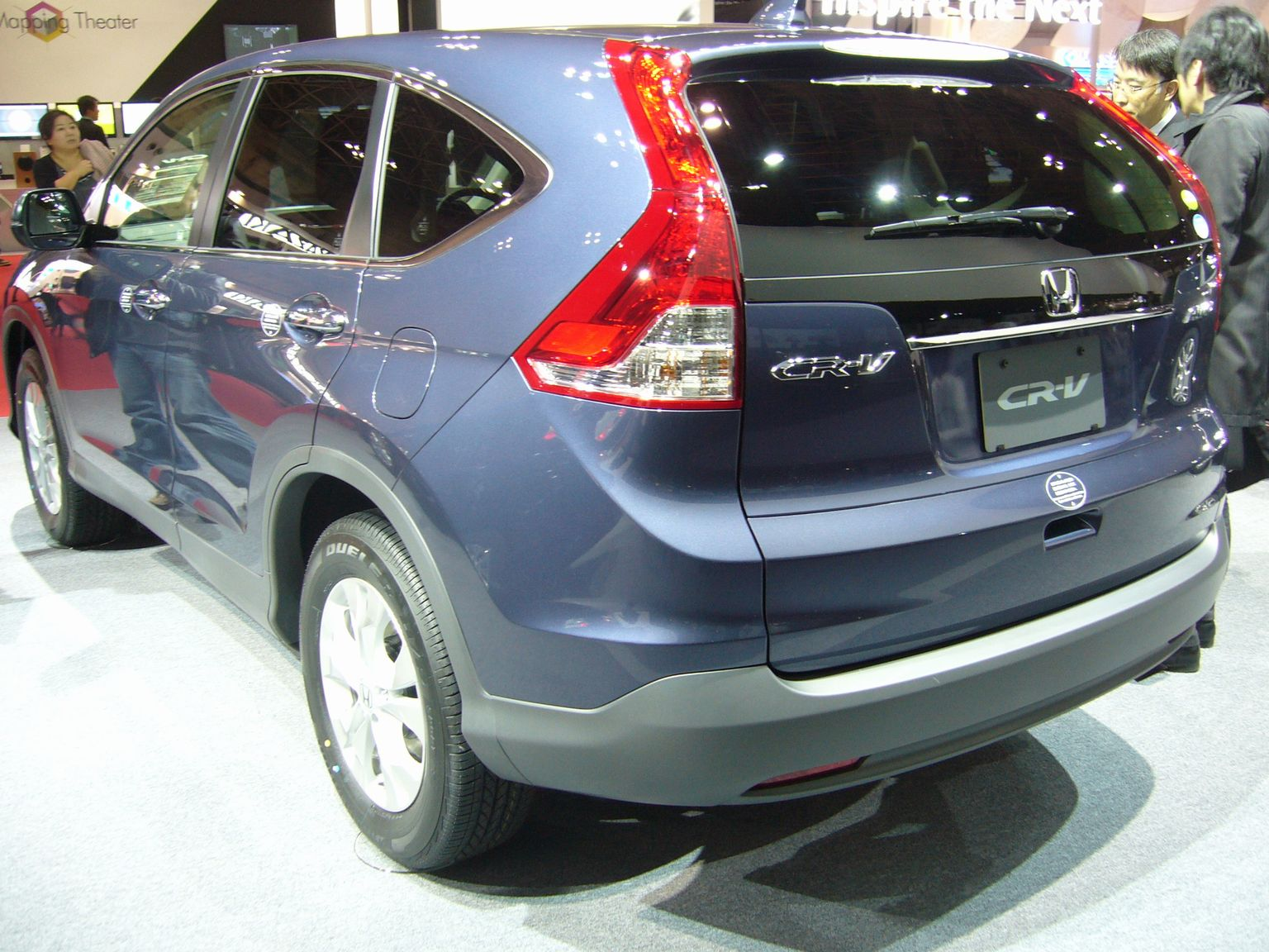 HONDA CR-V